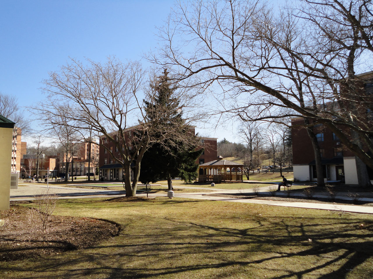 UConn West Campus Residence Halls, photo taken by me.